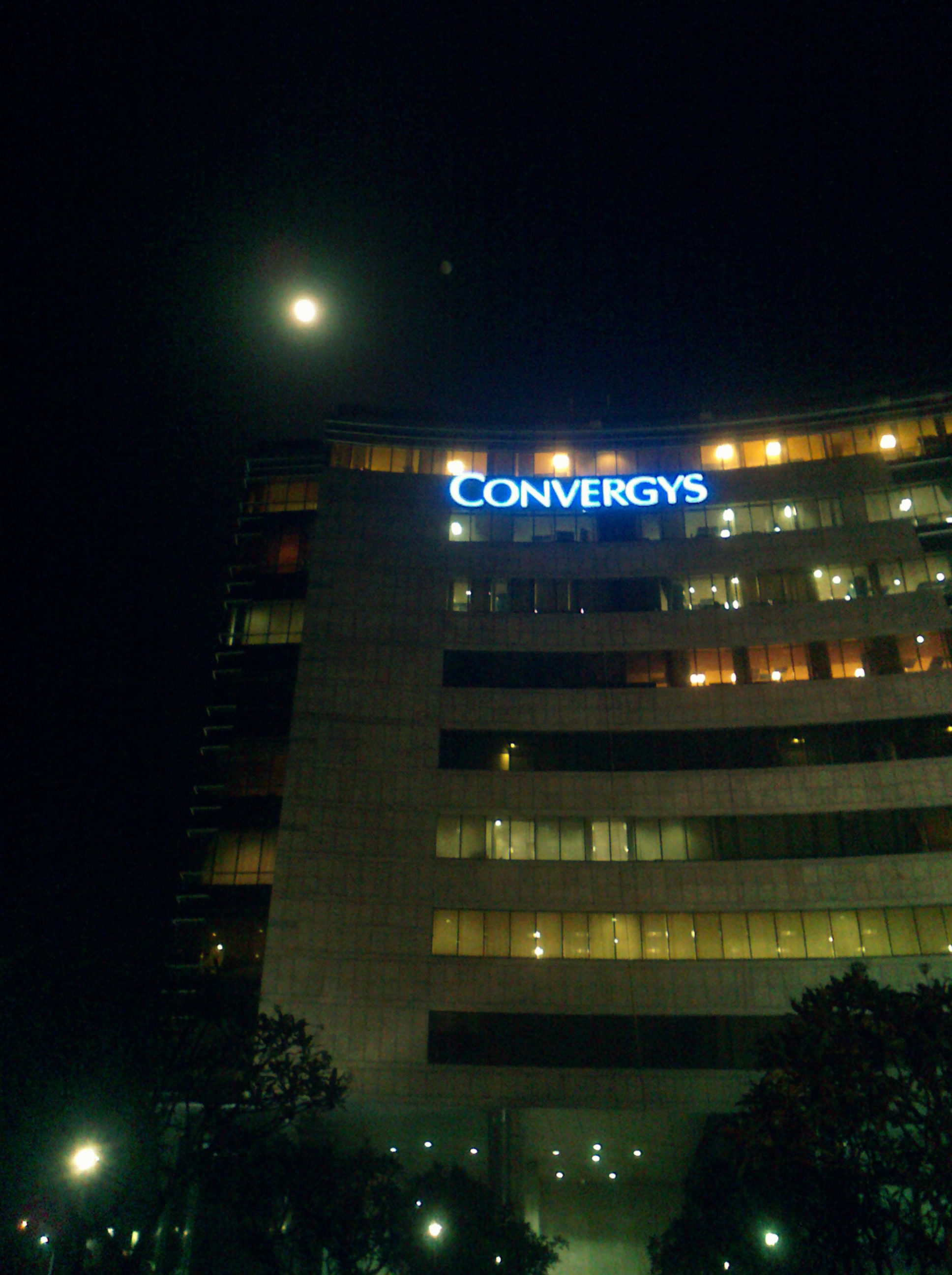 One of the buildings of Convergys, DLF IV, Gurgaon, India